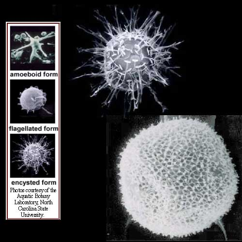 SEM Images of Pfiesteria shumwayae